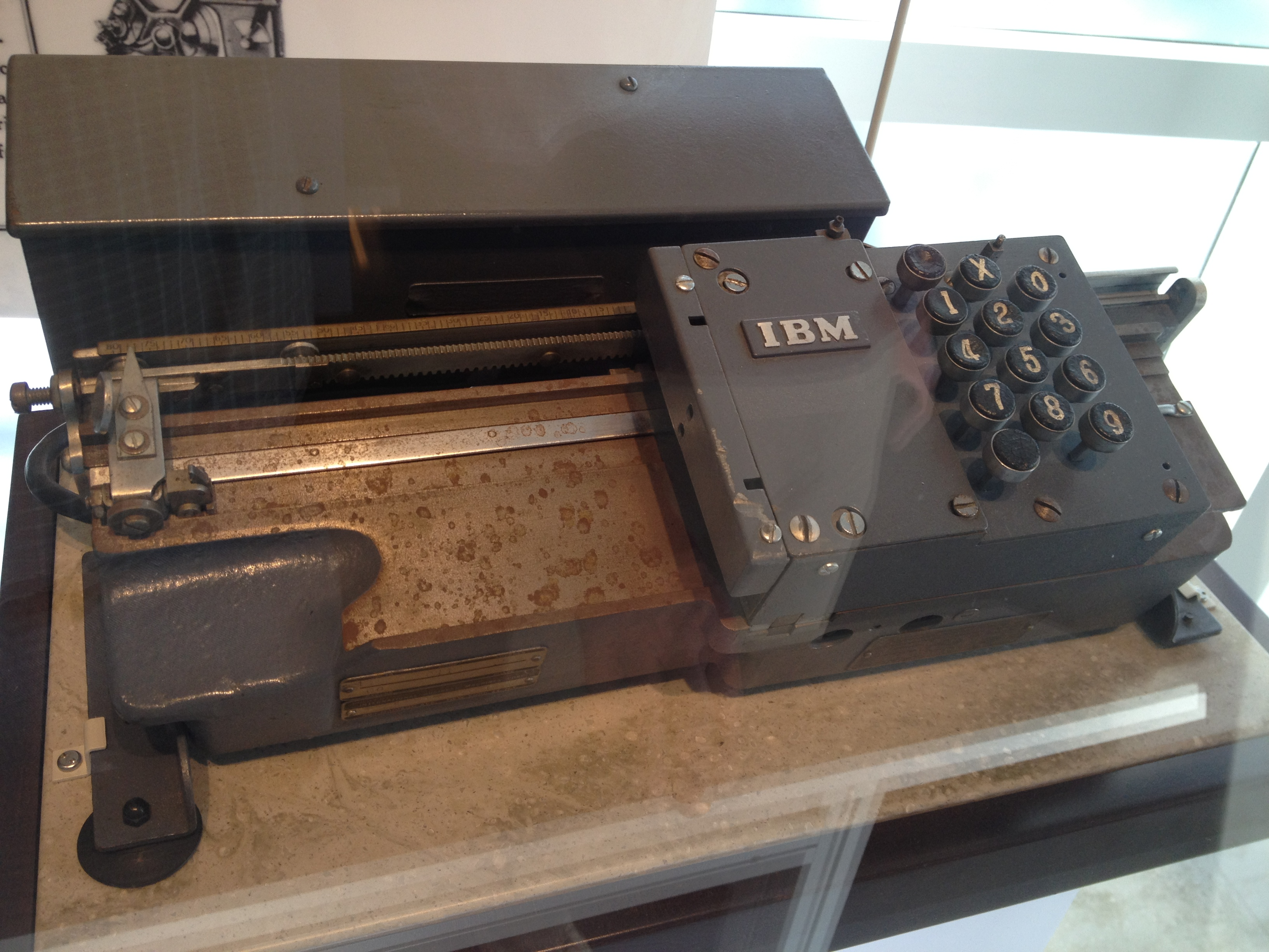 IBM 010 numeric keypunch at the Computer History Museum.